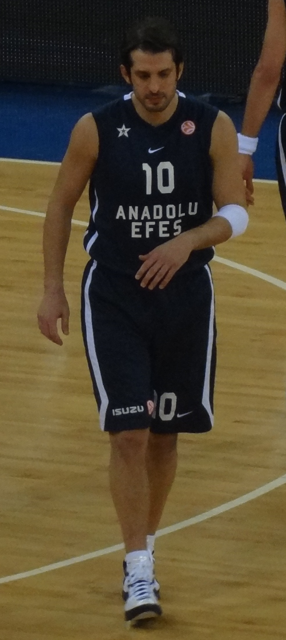 Kerem vs Galatasaray (Euroleague)